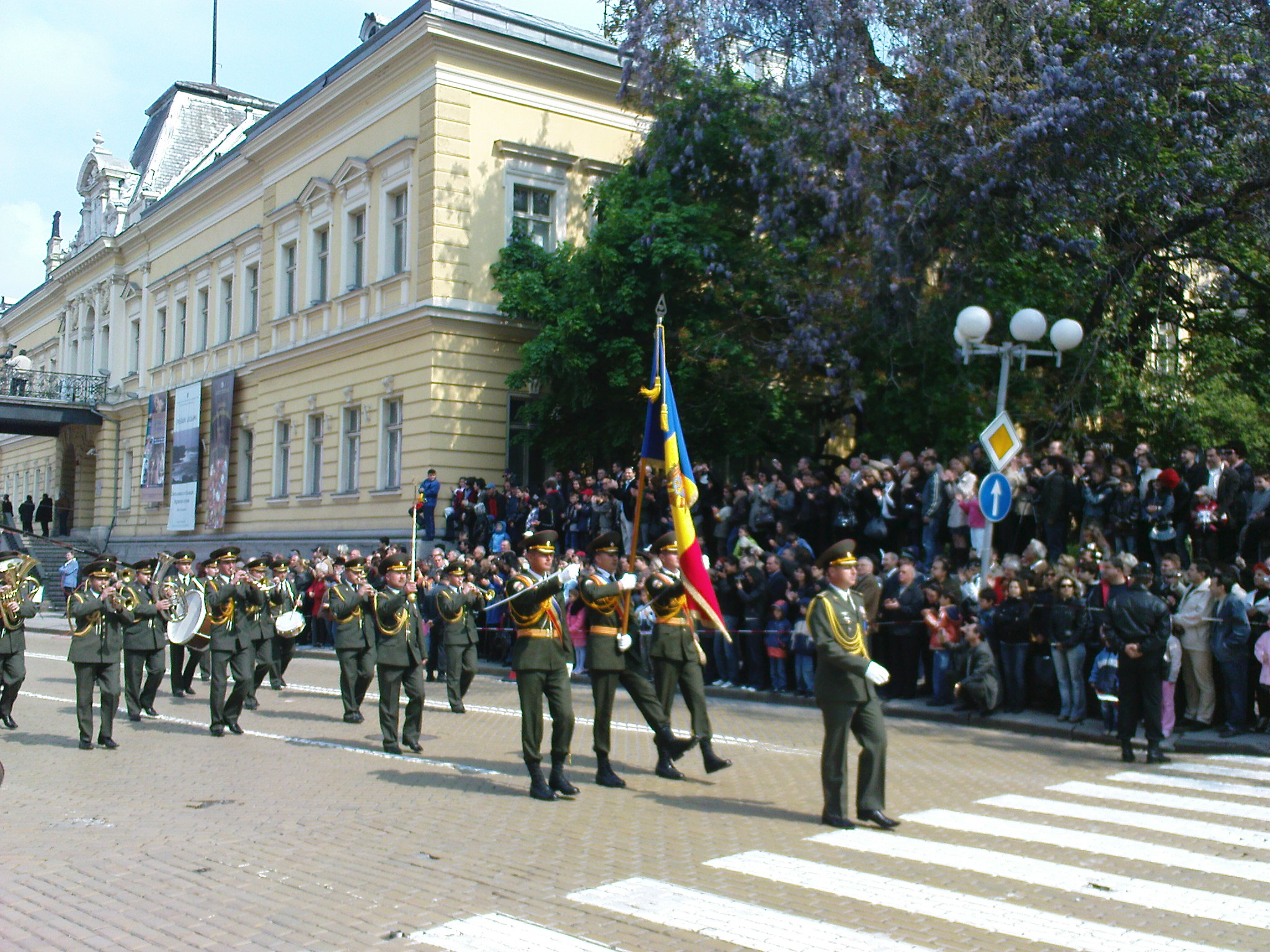 A Moldovan parading unit on Army day parade in Sofia